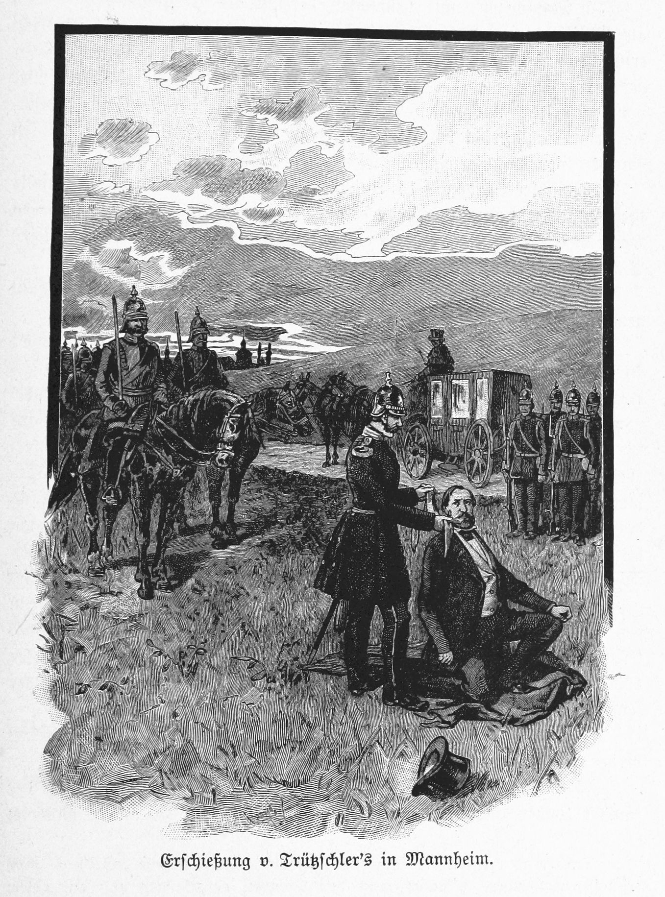 Image extracted from page 613 of Die deutsche Revolution. Geschichte der deutschen Bewegung von 1848 und 1849 ... Illustrirt, etc, by BLOS, Wilhelm. Original held and digitised by the British Library. Copied from Flickr. Note: The colours, contrast and appearance of these illustrations are unlikely to be true to life. They are derived from scanned images that have been enhanced for machine interpretation and have been altered from their originals.